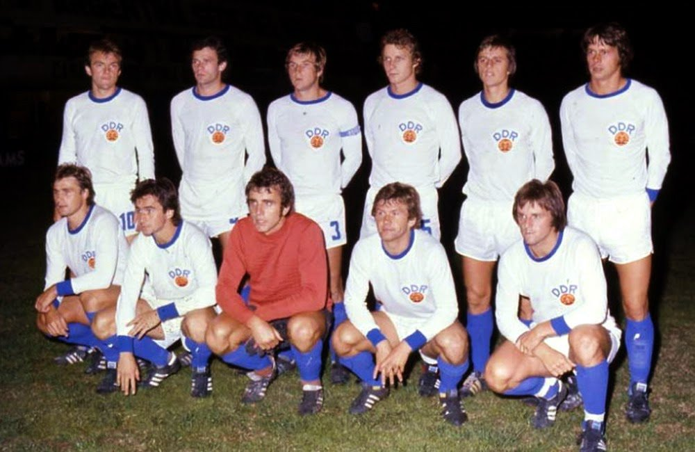 The German Democratic Republic football team that played the Argentine side at Boca Juniors stadium. The German squad was beat by 2-0, with an attendance of 50,000 spectators.